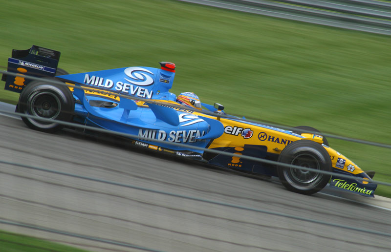 Fernando Alonso driving for Renault F1 at the 2006 United States Grand Prix.